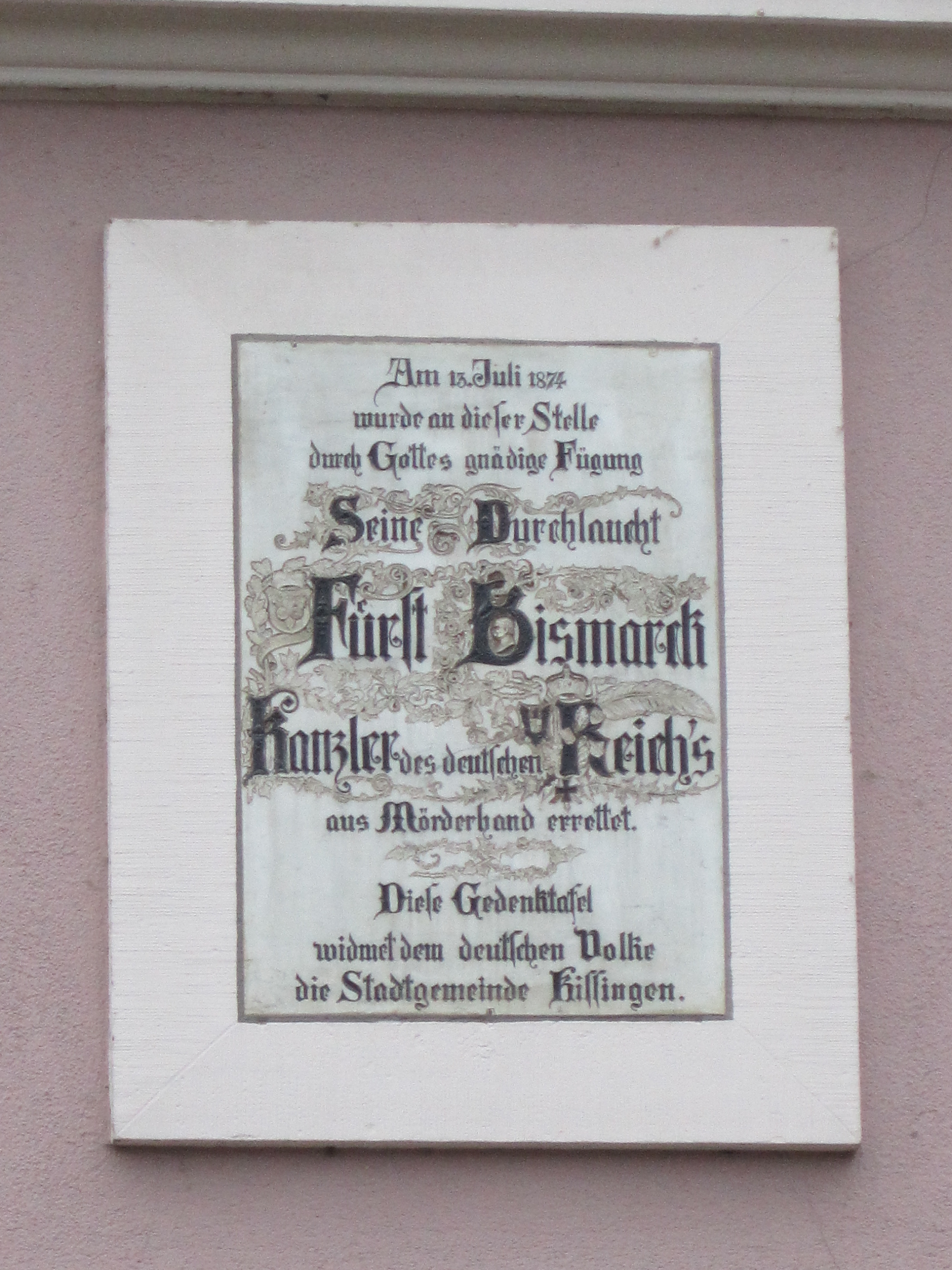 Plaque commemorating the assassination attempt on Otto von Bismarck in Bad Kissingen in 1874. The plaque was made by sculptor Michael Arnold and is located at Bad Kissingen, Bismarckstraße 16